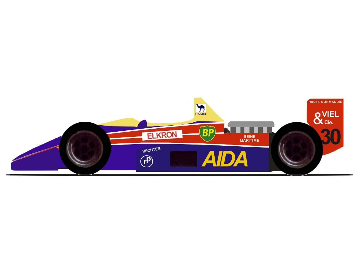 Lola LC88-Ford Cosworth as used in 1988 Formula 1 season